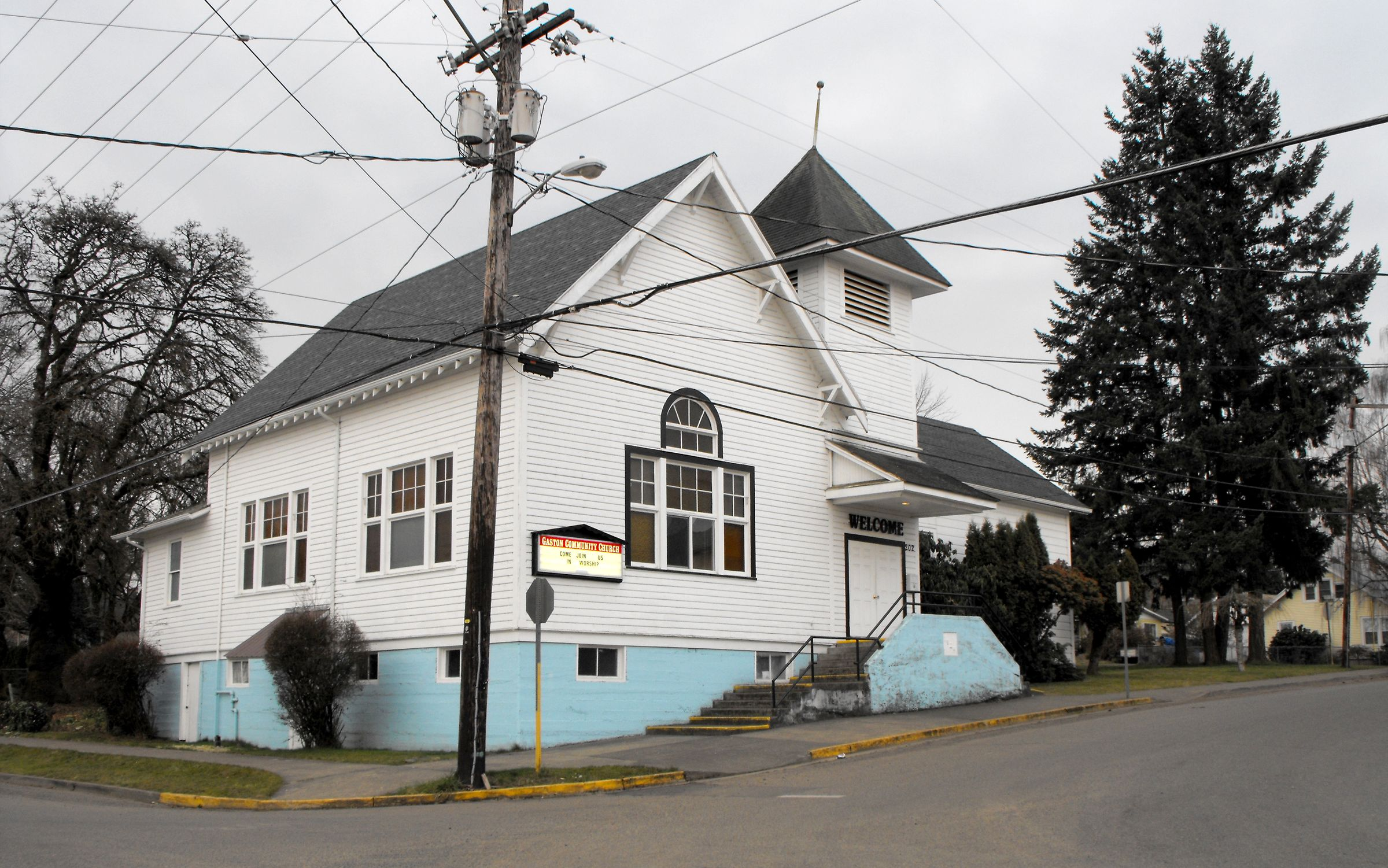 Gaston Community Church. 202 Church Gaston, OR 97119 (503) 985-7774